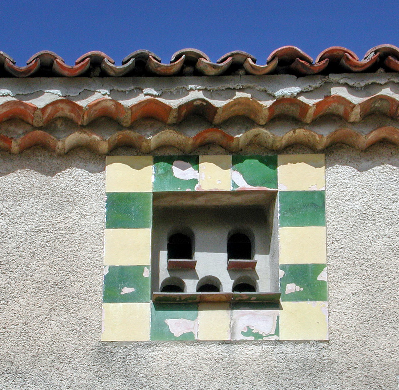 Mons(Var) : dovecote in Esclapon-bas 'castle'